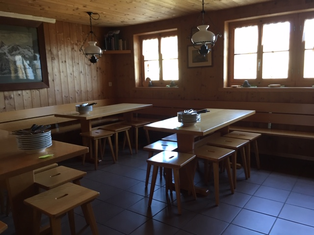 Sustlihütte inside (2018)